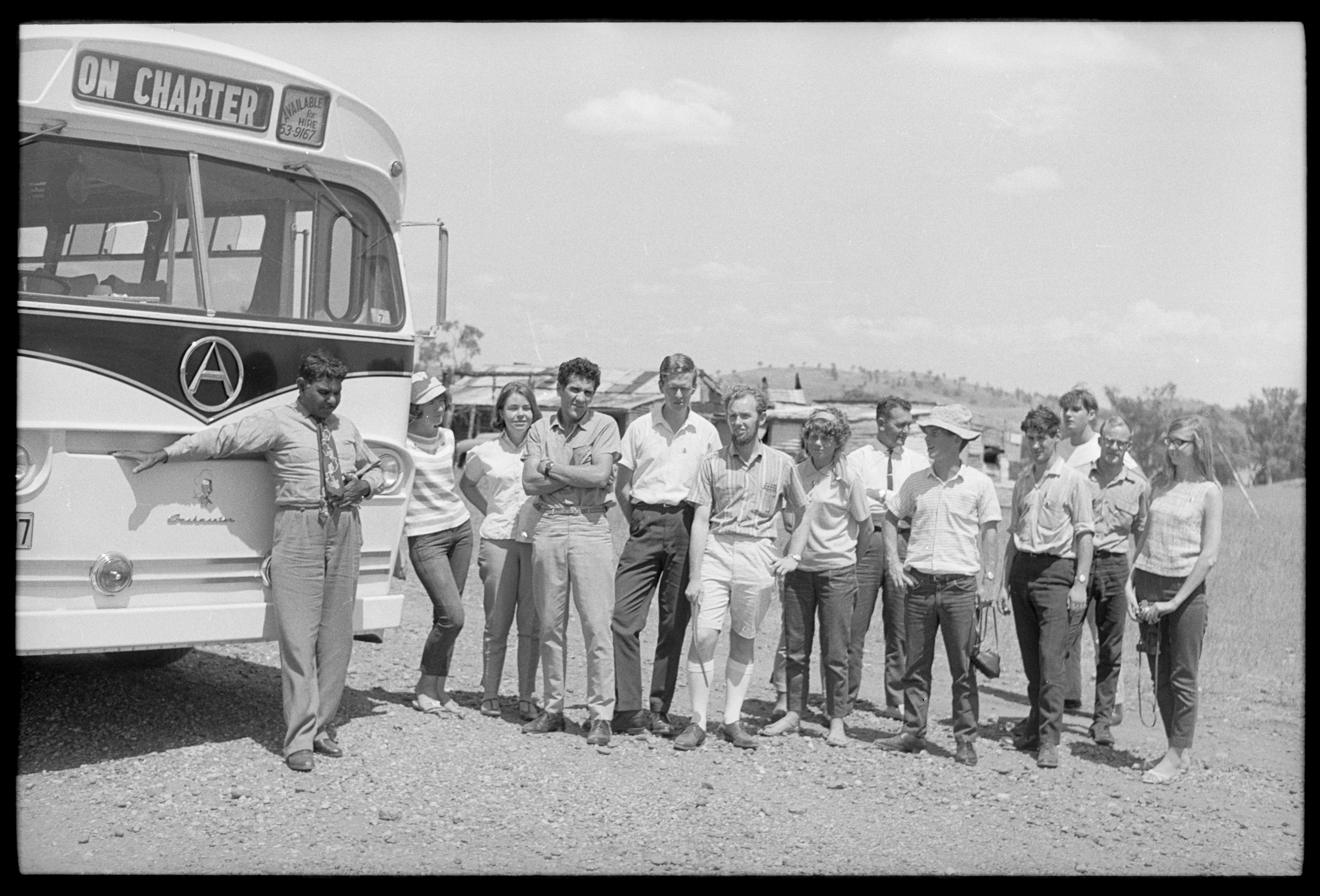 Can you help identify the people and places documented in this photograph? [L to R:] Gerry Mason, Pat Healy, Sue Reeves, Charles Perkins, Ray Leppik, Bob Gallagher, Ann Curthoys, John Butterworth, Norm McKay, Alan Outhred, [unidentified], Colin Bradford, Louise Higham Call Number: ON 161/220 Format: photonegative, 35mm Find more detailed information about this photograph: Search for more great images in the State Library's collections: .au/search/SimpleSearch.aspx Protocols for Libraries and Archives. Further information on the ATSILIRN Protocols is available here From the collection of the State Library of New South Wales